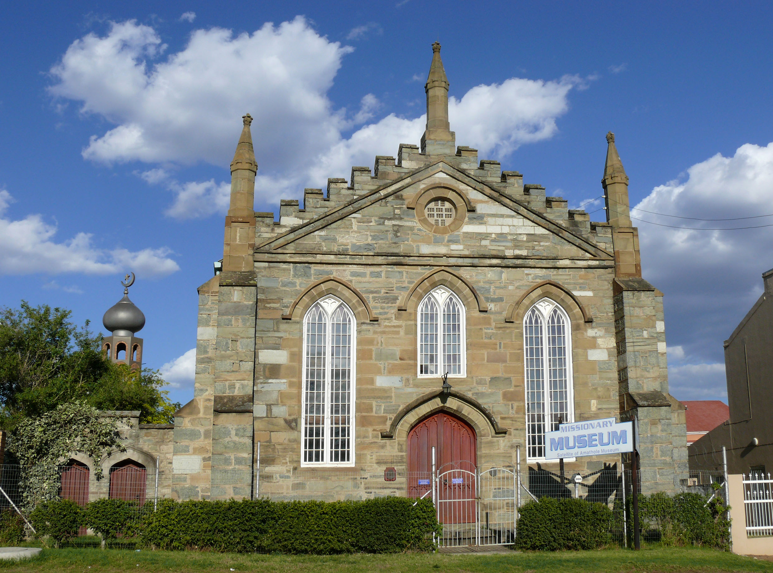 South African Missionary MuseumAfrikaans: Suid-Afrikaanse Sendingmuseum, King William's Town This media shows a South African Protected Site with SAHRA file reference 9/2/050/0027.